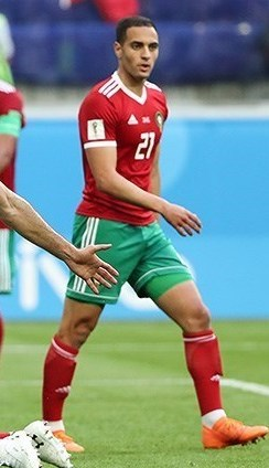 Iran-Morocco match, Group B, 2018 FIFA World Cup